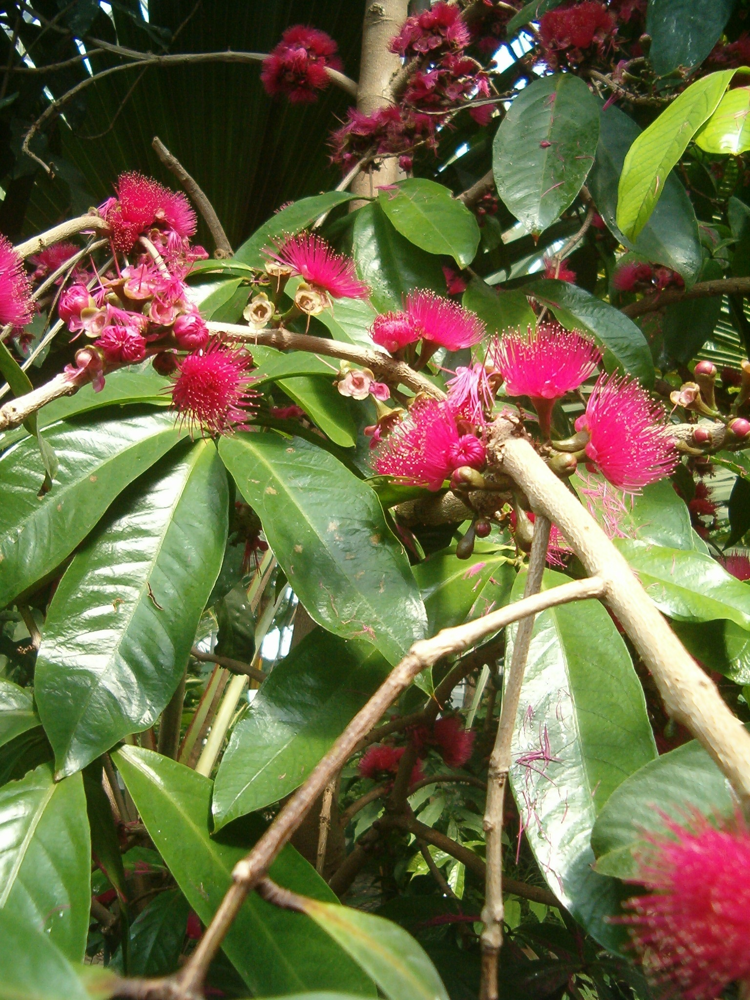 At Botanical Gardens Berlin-Dahlem Species Syzygium malaccense